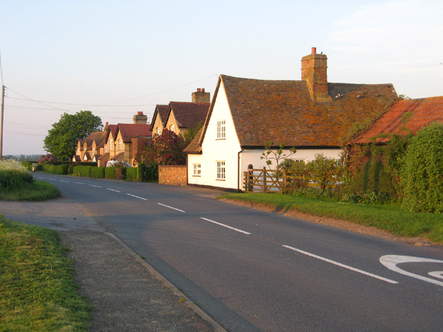 Cottages, Eyeworth, Beds. located at the NE end of this small settlement, beside the road to Wrestlingworth.